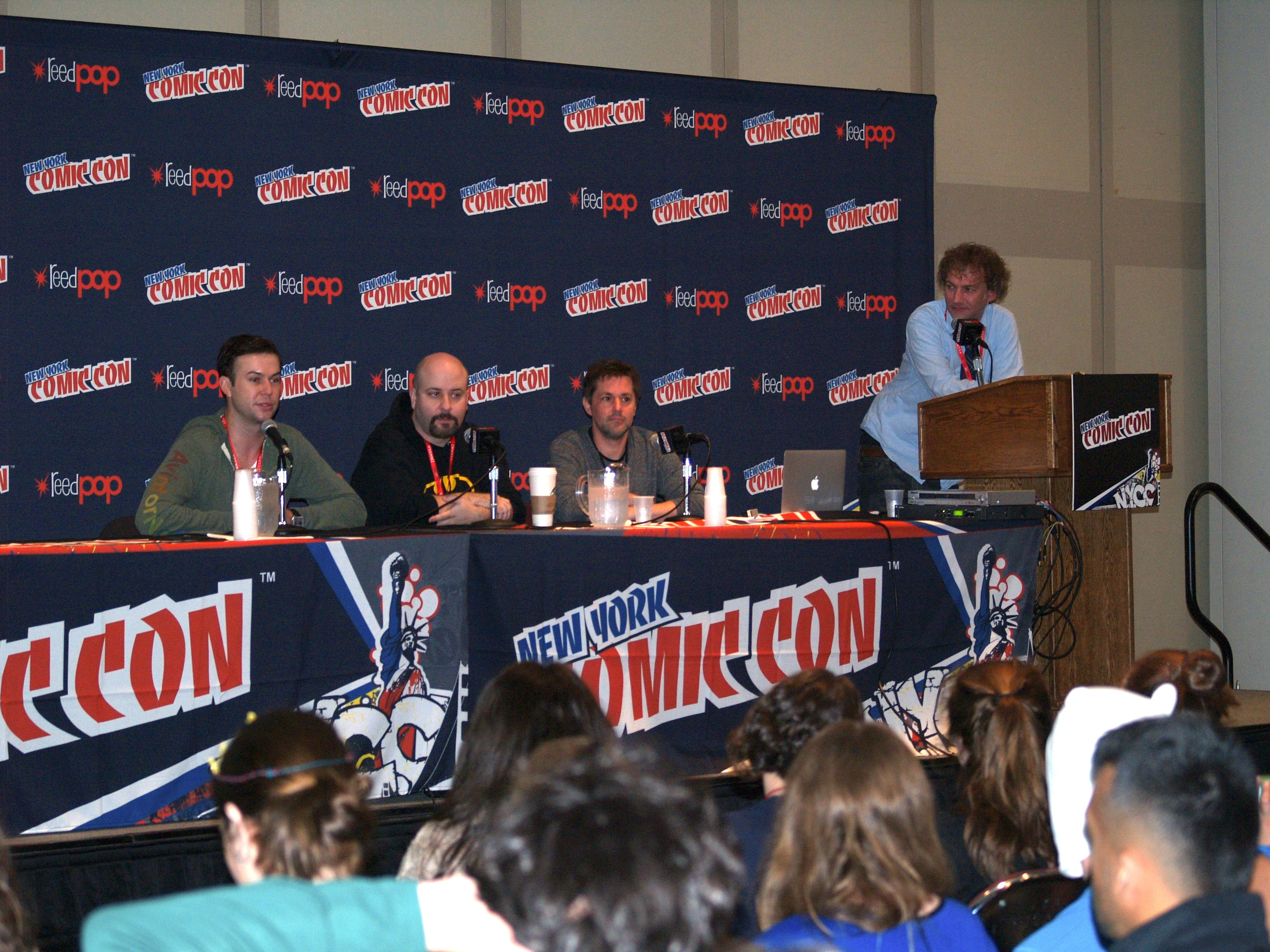 Left to right: actor/comedian Taran Killam writer Marc Andreyko, IDW Publishing Chief Creative Officer and Editor-in-Chief Chris Ryall, and IDW Vice President of Marketing Dirk Wood, at a panel regarding The Illegitimates, the IDW comic book miniseries created by Killam and Andreyko, on Sunday, October 13, 2013 at the Jacob K. Javits Convention Center in Manhattan, Day 4 of the 2013 New York Comic Con. This photo was created by Luigi Novi. It is not in the public domain, and use of this file outside of the licensing terms is a copyright violation.